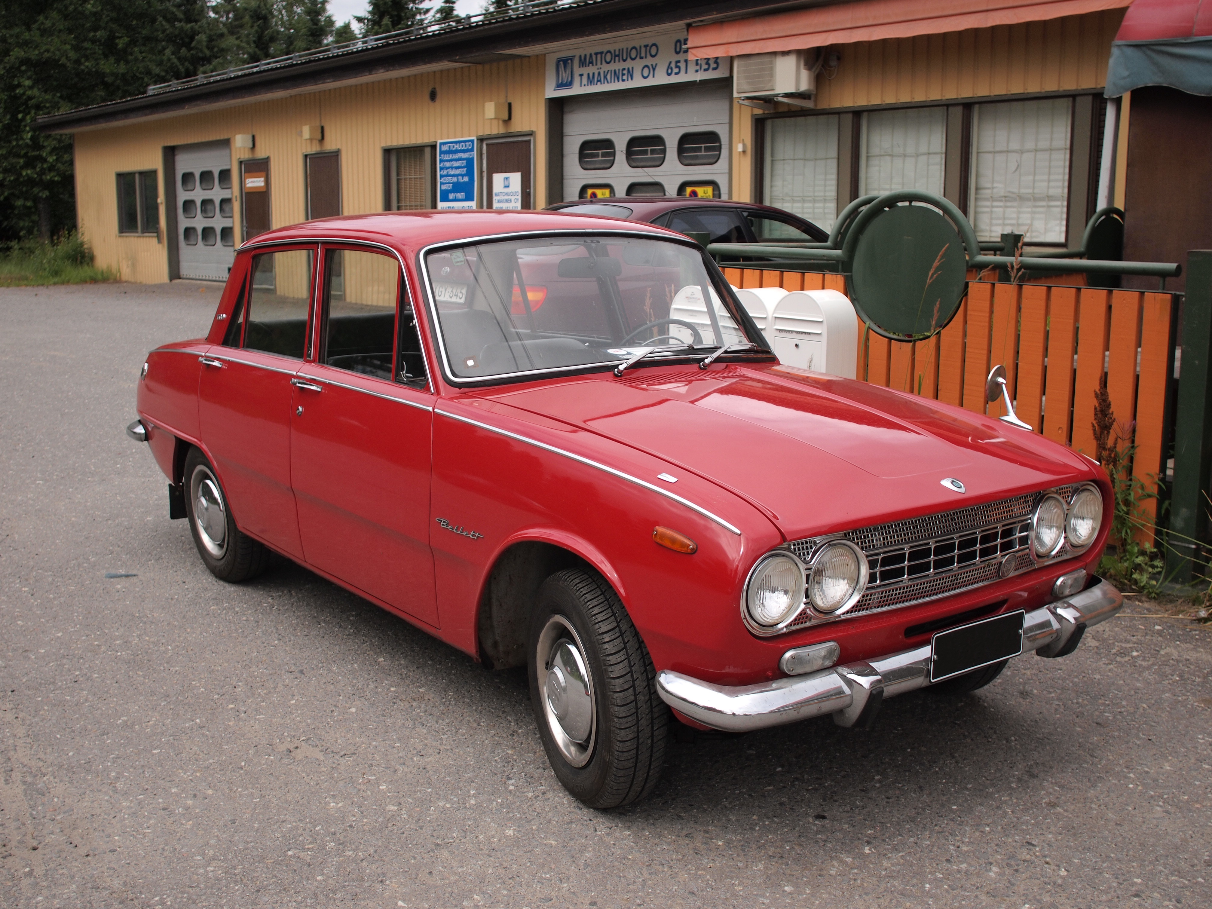 Front end of a red Isuzu Bellett.